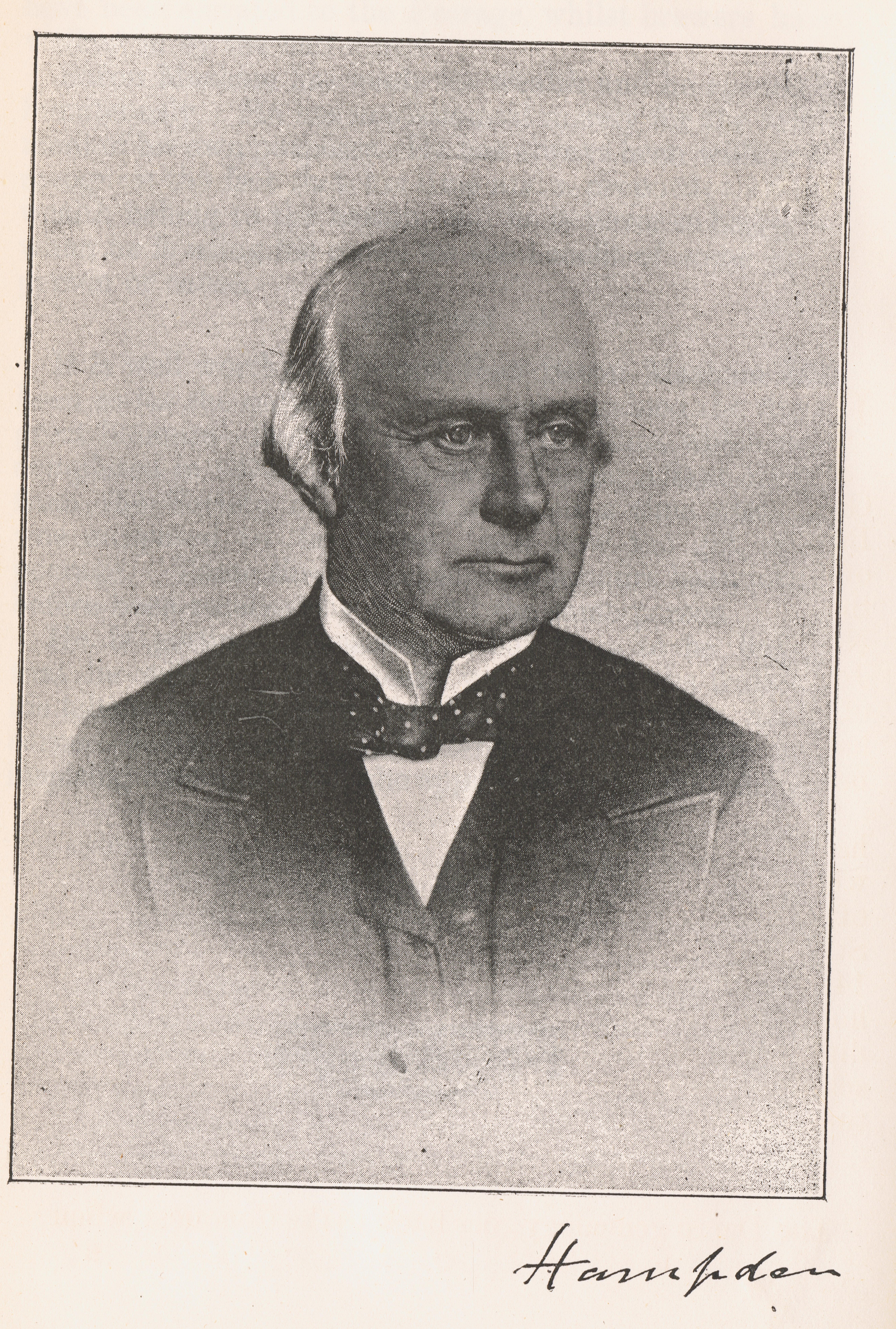 Scan (by me, R. de Salis, Rodolph (talk) 22:30, 6 October 2015 (UTC)) of a photogravure and repro-autograph of Lord Viscount Hampden, P.C., G.C.B., published by George Potter in 1891.